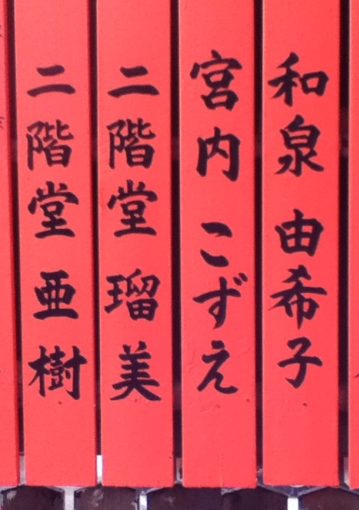 Tamagaki in Kurumazaki Shrine, Kyoto